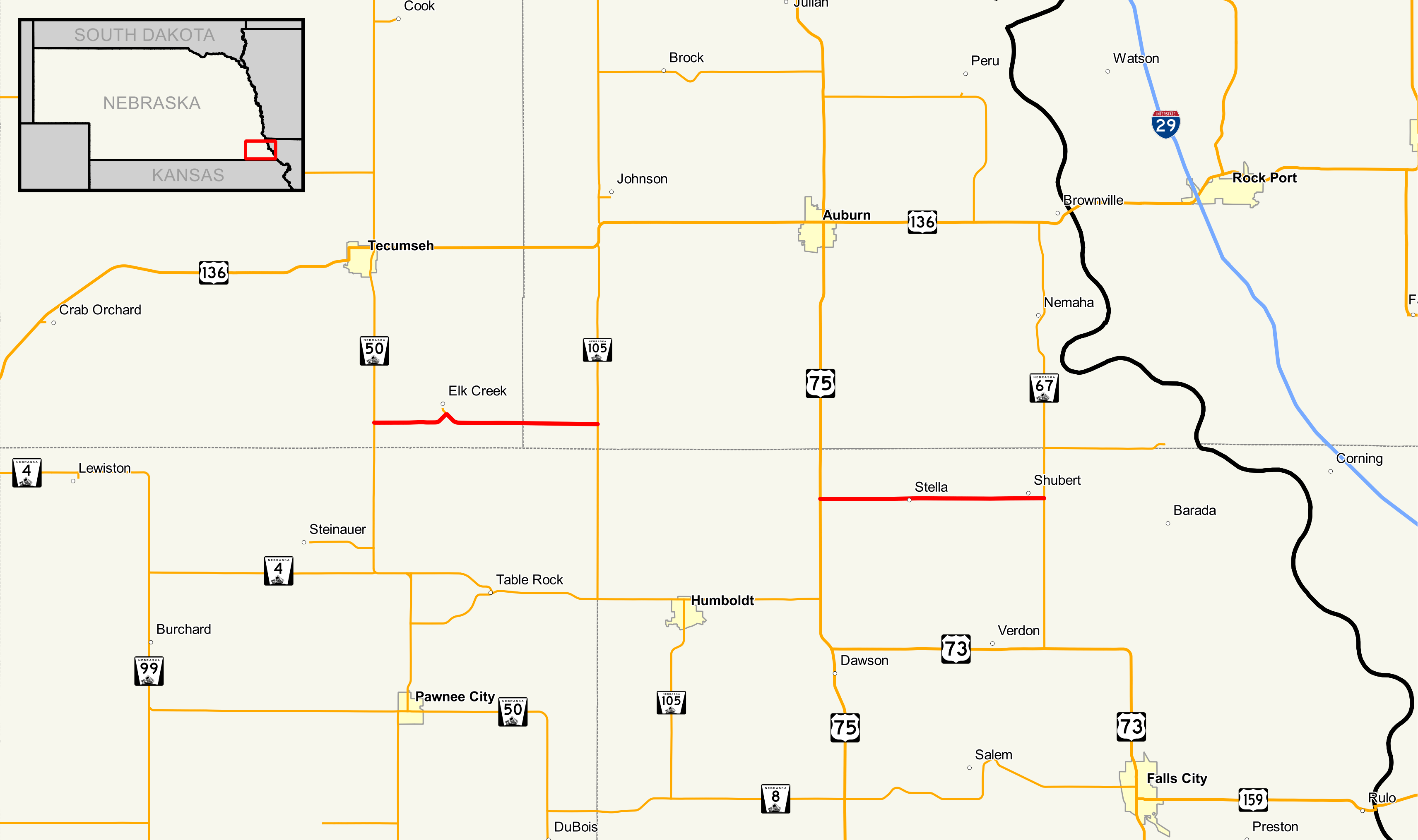 Map of Nebraska Highway 62 Data Sources: Nebraska Highways - - Dec 2016 Nebraska County Boundaries - - Dec 2016 Nebraska City Boundaries - - Dec 2016 This PNG graphic was created with QGIS